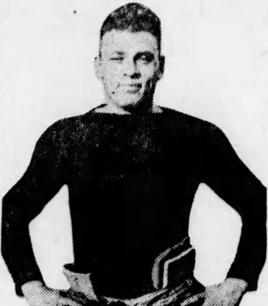 John Barsha at Syracuse University I also converted the file to jpg because it wouldn't let me upload it originally.